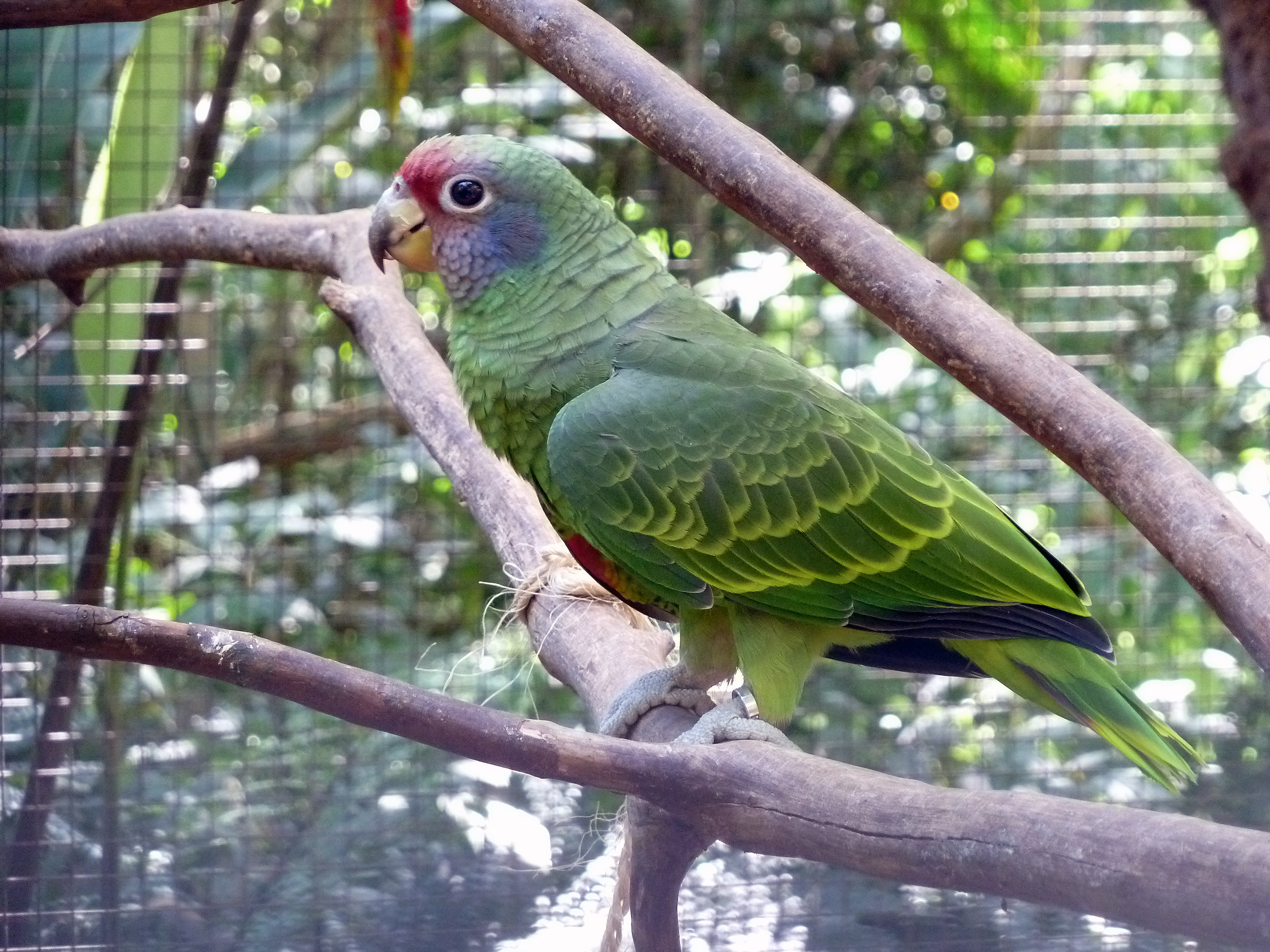 A Red-tailed Amazon at Parque das Aves, Foz do Iguaçu, Brazil.